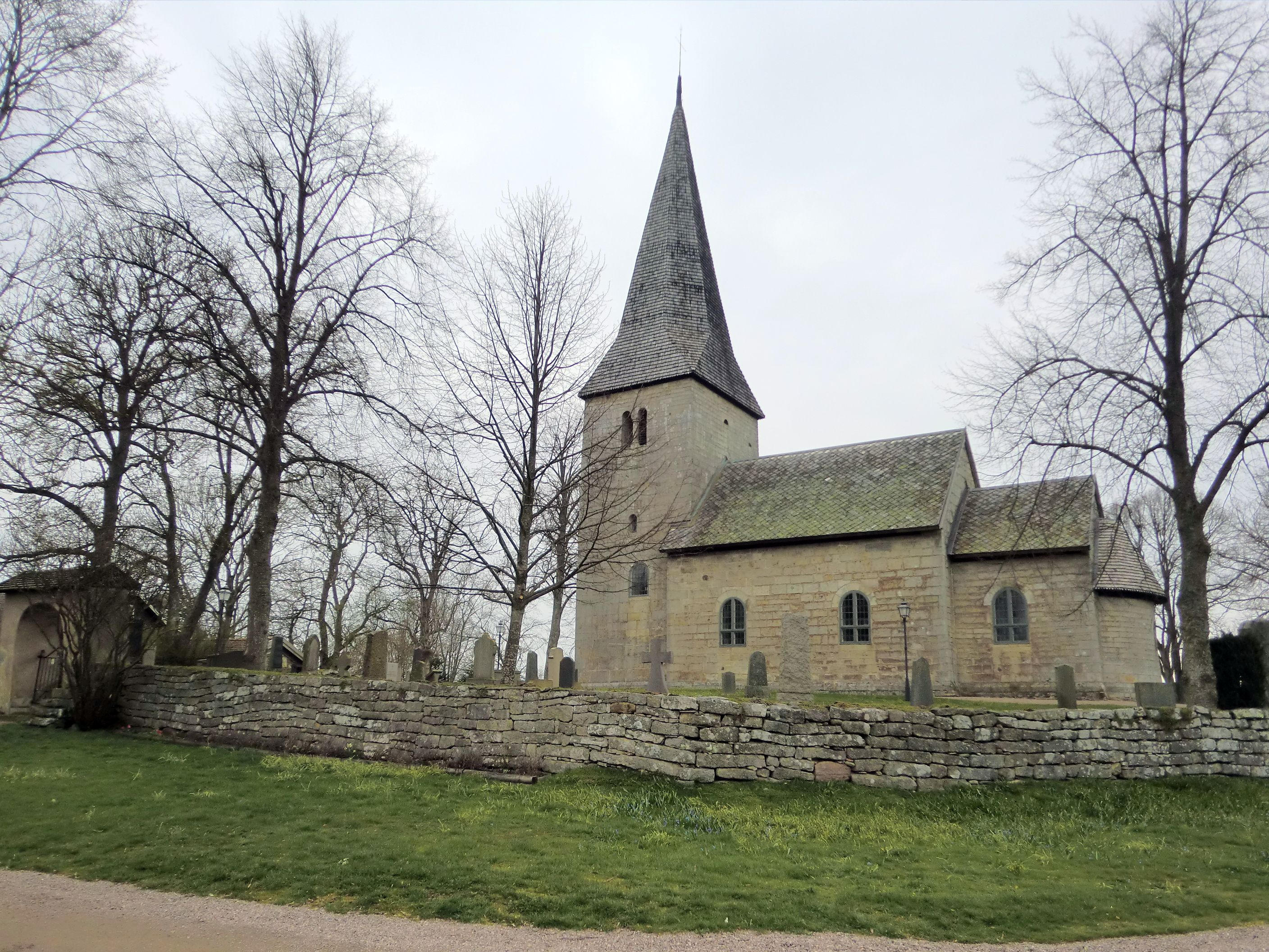 Skälvum 12th-century parish church, close to Lidköping i Västergötland, Sweden.